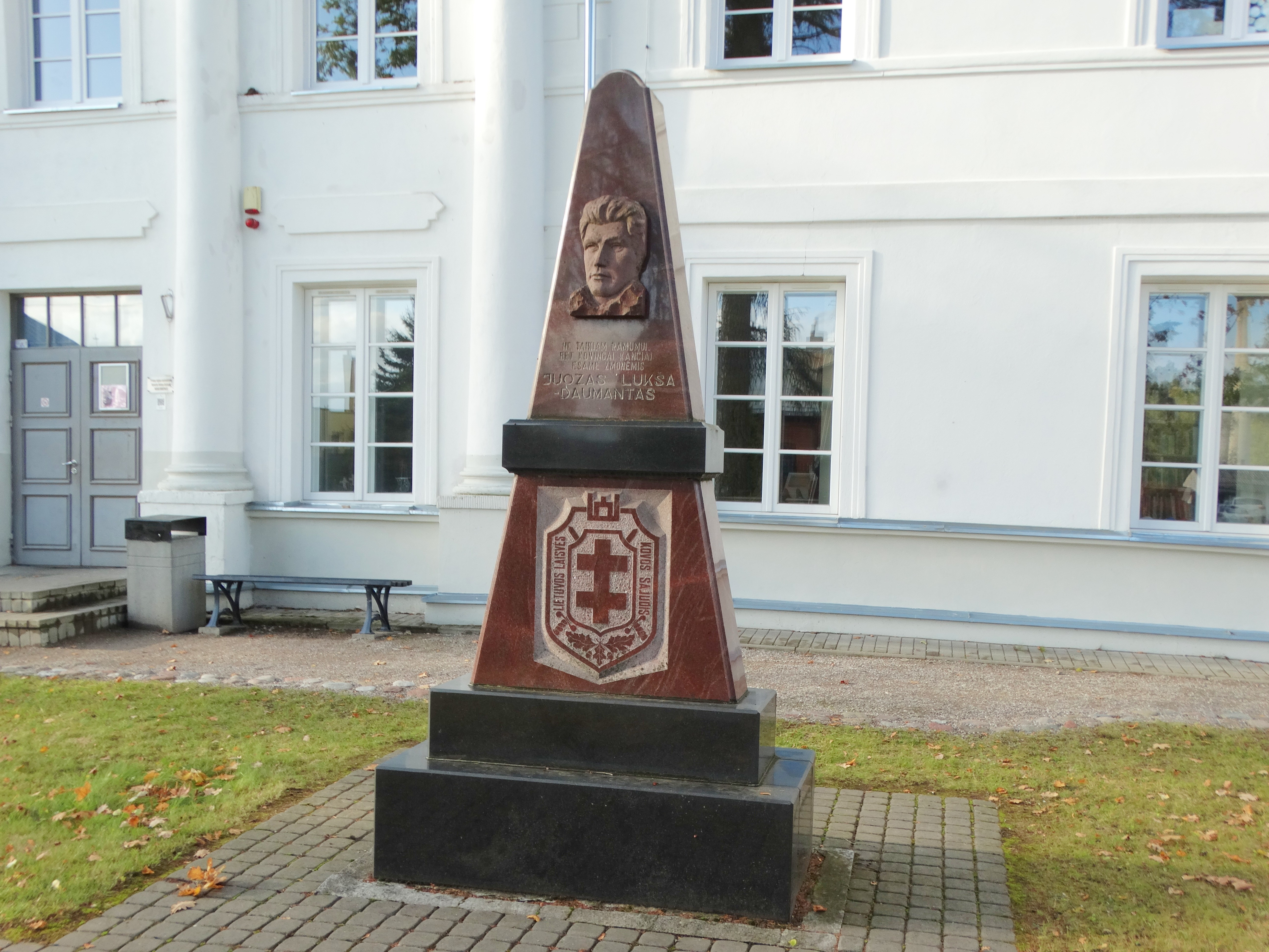 In memory of Lukša Daumantas, Veiveriai, Prienai district, Lithuania